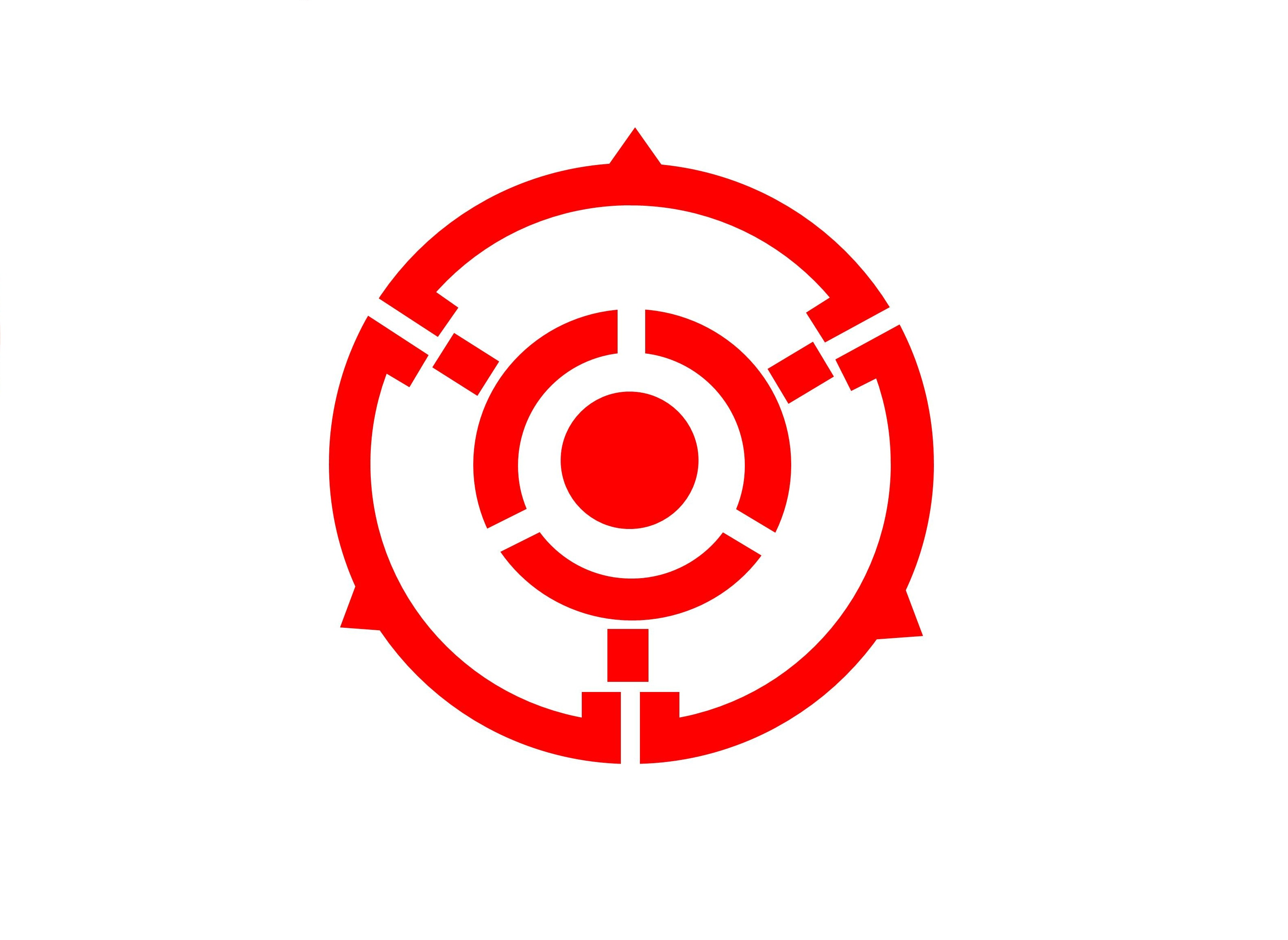 Flag of Hanno Saitama